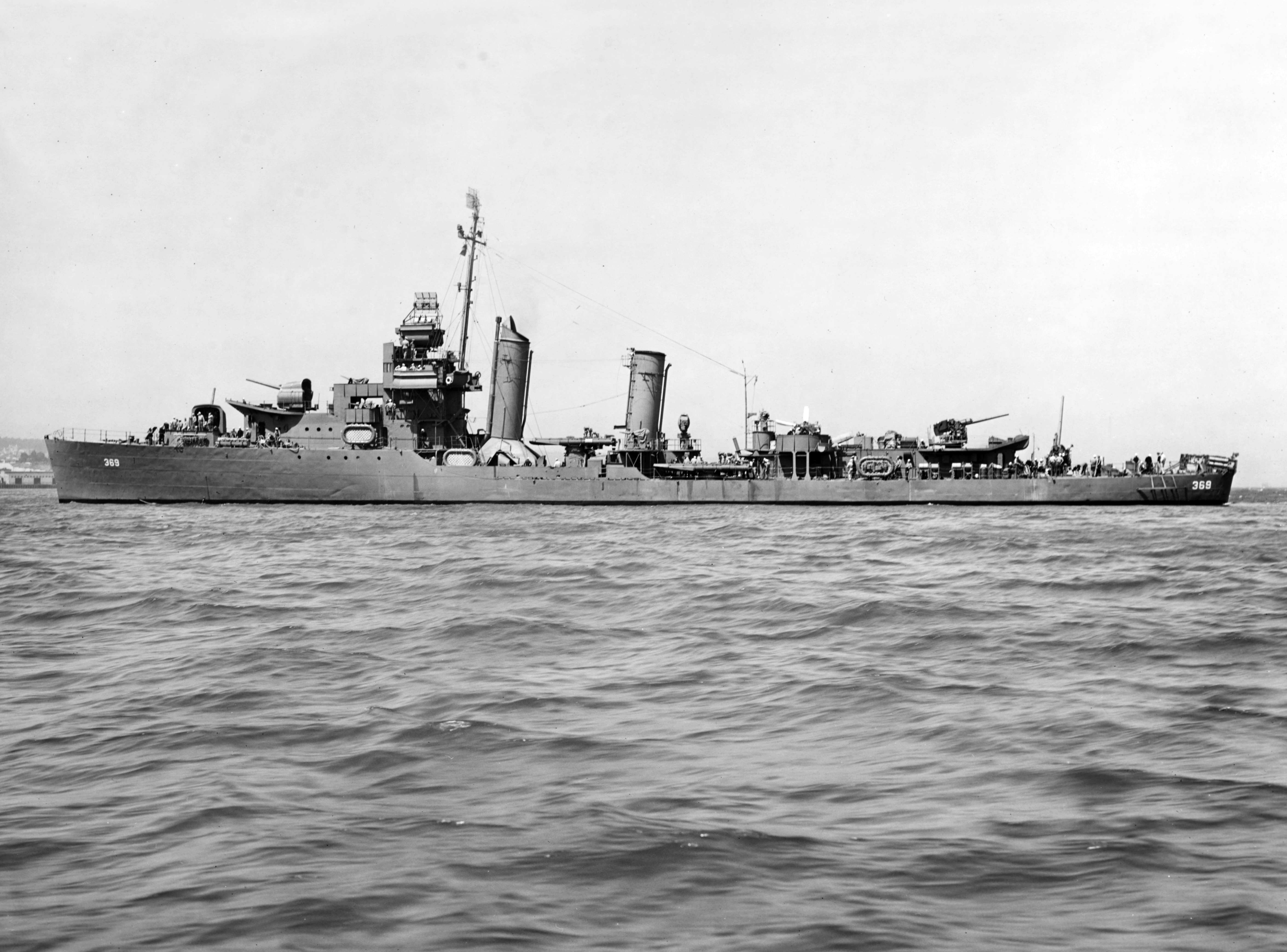 The U.S. Navy destroyer USS Reid (DD-369) off the Mare Island Naval Shipyard, California (USA), on 11 July 1943. She was in overhaul at Mare Island from 27 May to 16 July 1943. On this date she was on trails.